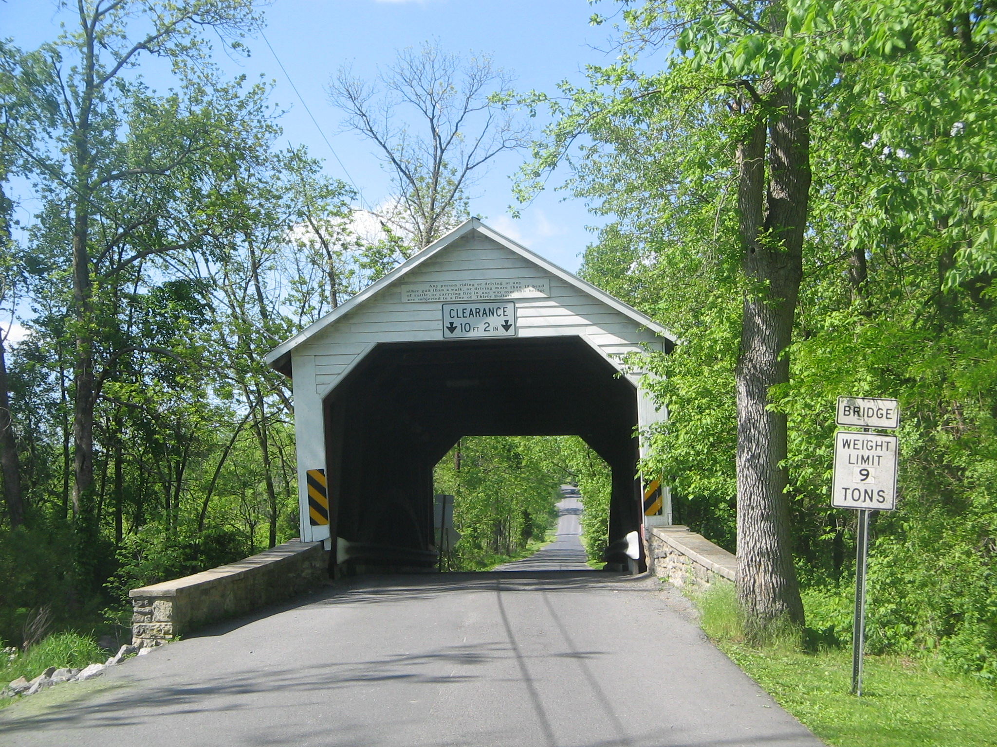 Hassenplug Covered Bridge over Buffalo Creek in the borough of Mifflinburg, Union County, Pennsylvania, USA. Bridge built 1825. On the US National Register of Historic Places. A Burr arch truss bridge.